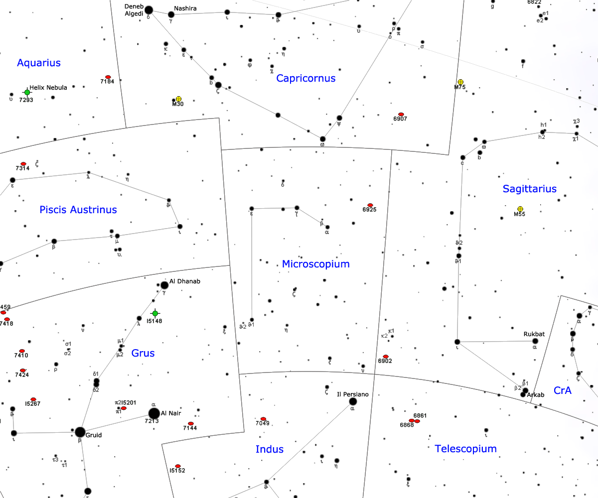 Map of Microscopium